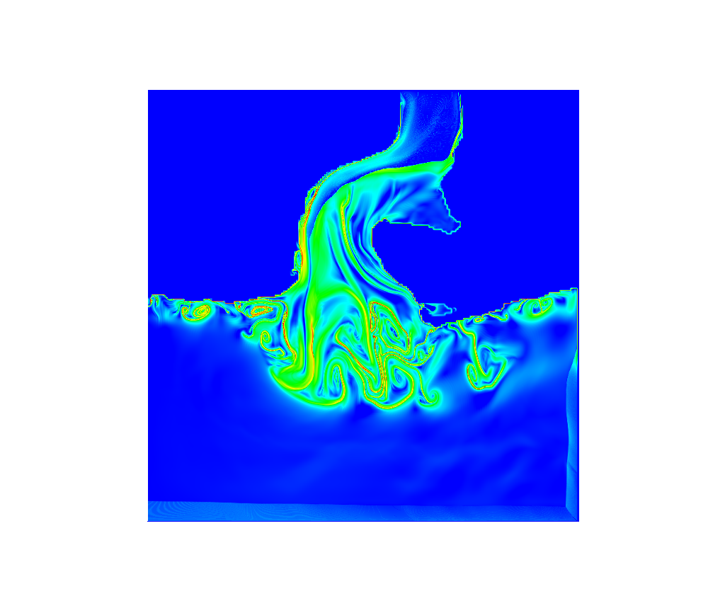 An example of finite-time Lyapunov exponents (FTLE) for a 3D flow field of the New River Inlet, Onslow, North Carolina. Image generated by Allen R. Sanderson, SCI Institute, University of Utah using the VisIt Visualization and Analysis Toolkit from data provided by Tuba Ozkan-Haller and Saeed Moghimi, College of Earth, Ocean, and Atmospheric Sciences, Oregon State University.